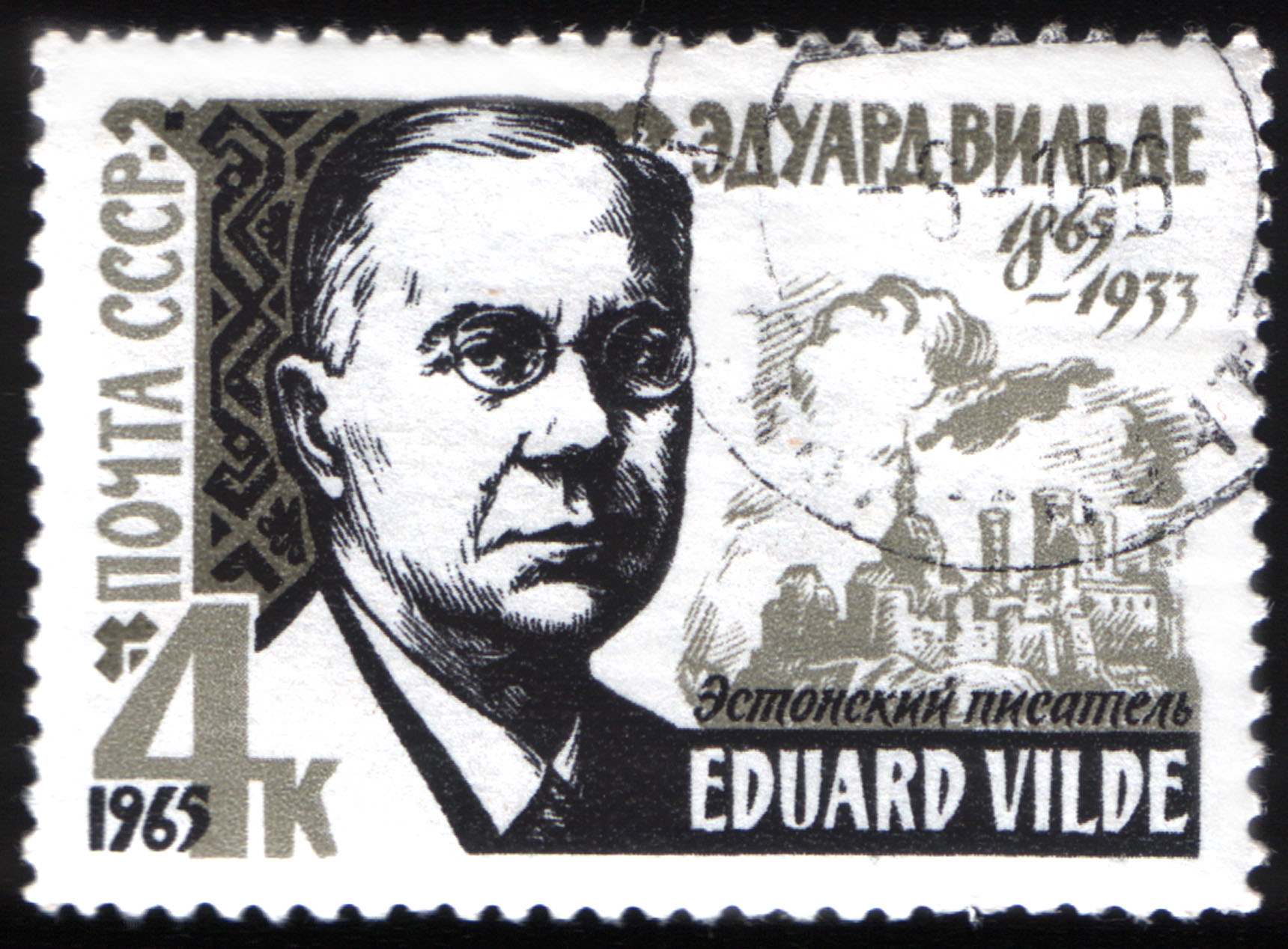 USSR stamp, E. Vilde, 1965, 4 k.